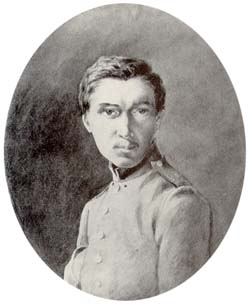 Bronisław Zaleski (1819-1880), Polish and Belarussian political activist, a writer and a publisher. Self-portrait